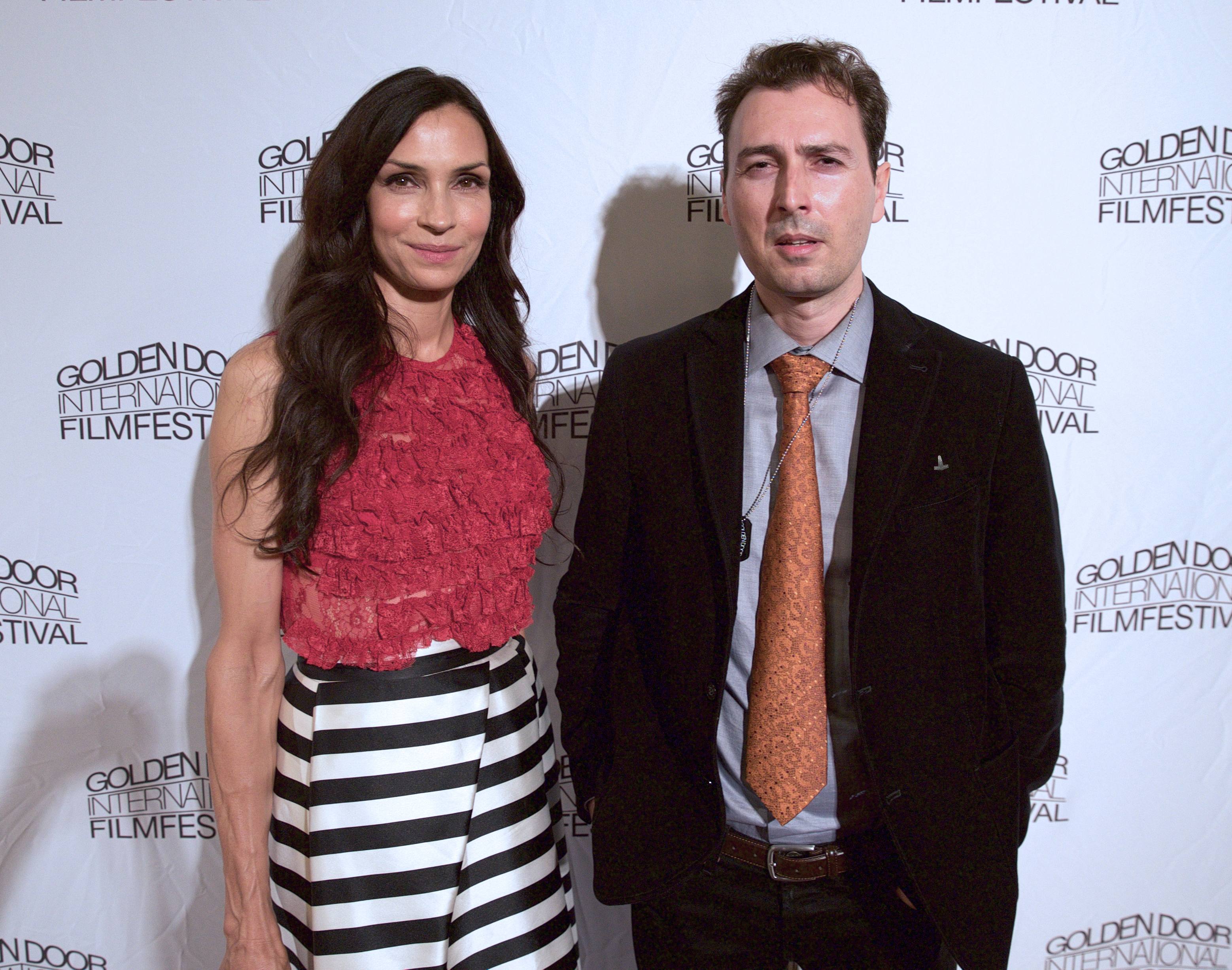 Famke Jansen Artur Balder at Golden Door International Film Fest 2015